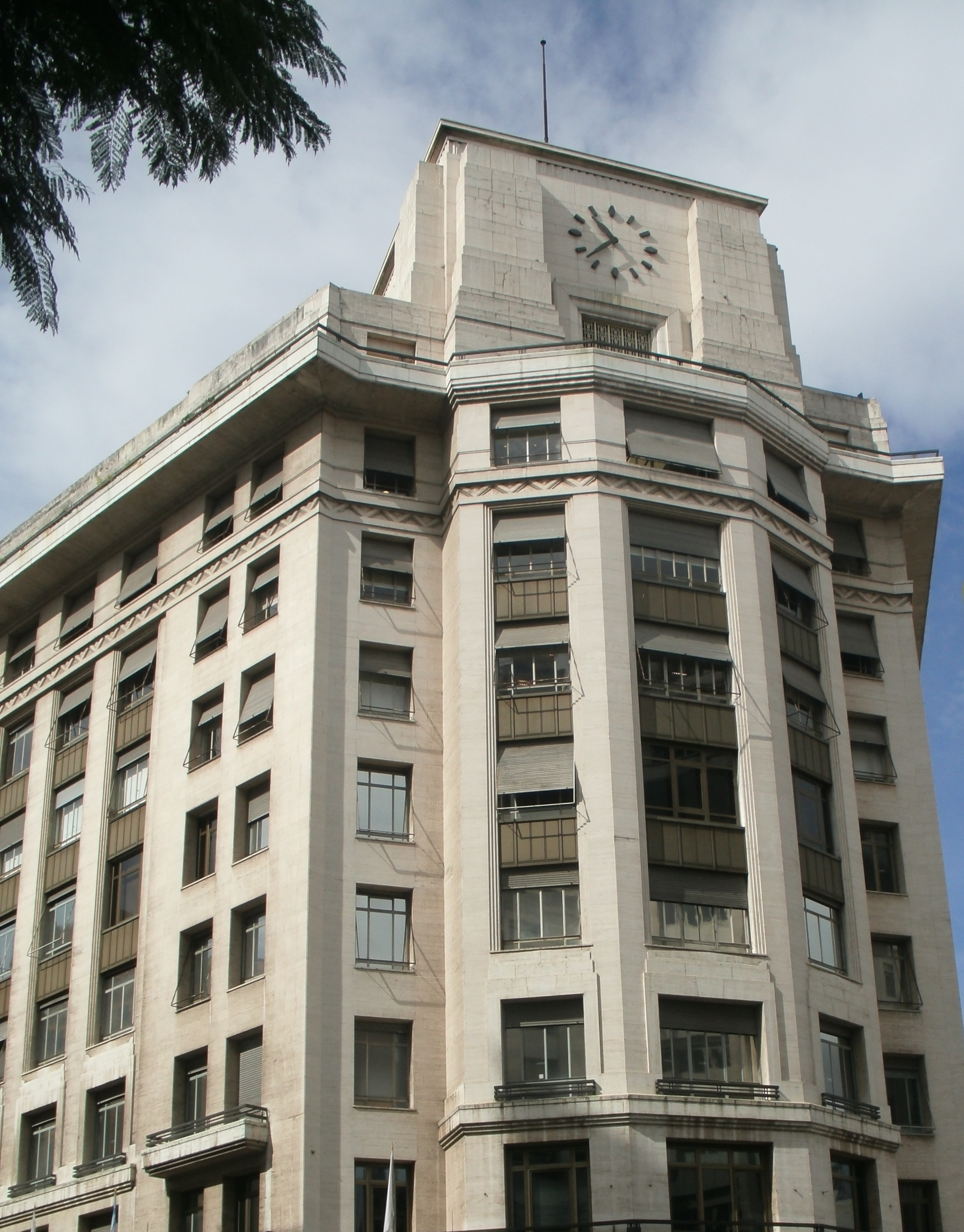 Se encuentra en el cruce de la Diagonal Norte con las calles Tte. Gral. Juan D. Perón y Esmeralda